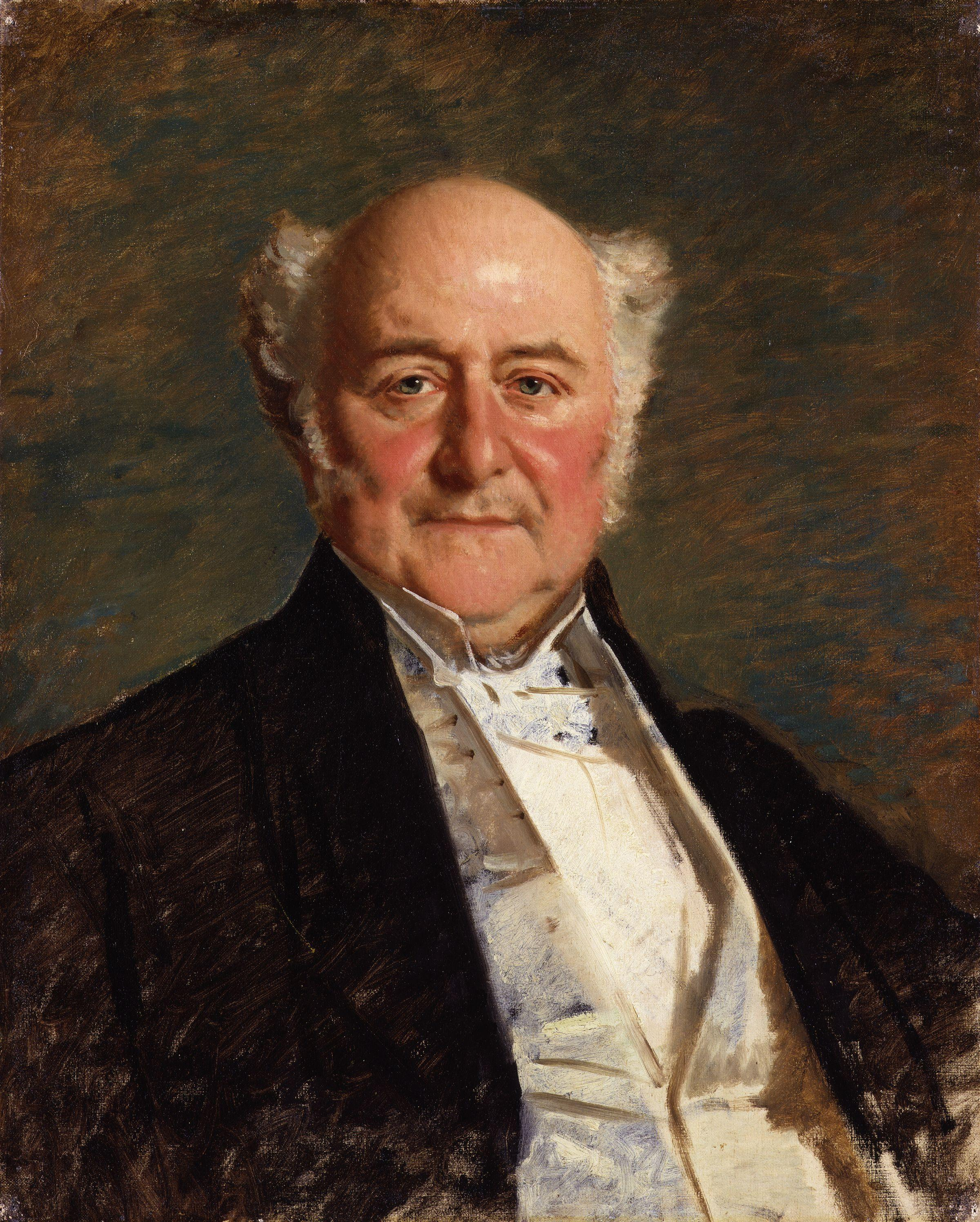 Portrait of Richard Bethell, 1st Baron Westbury. All images in this batch have been confirmed as author died before 1939 according to the official death date listed by the NPG.